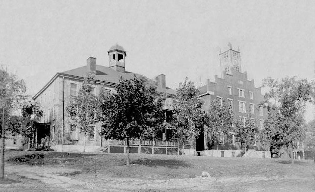 Photo circa 1900 of Jefferson Academy, formerly Jefferson College in Canonsburg, Pennsylvania (now Washington & Jefferson College).